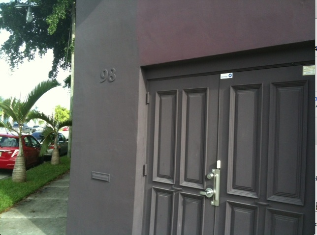 The Miami shop today.